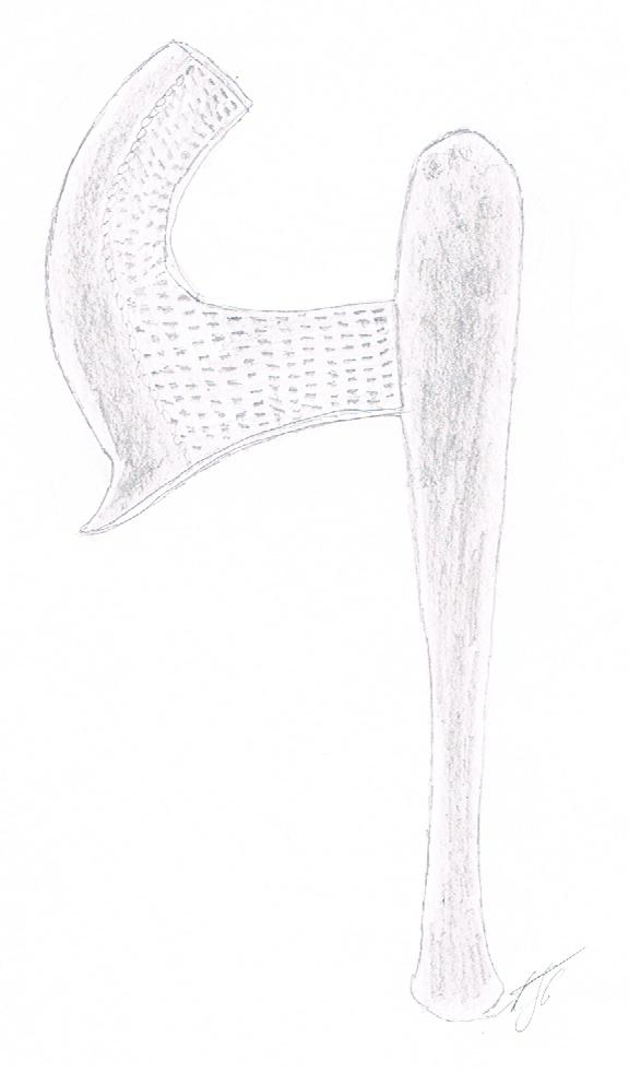 Songye Axe